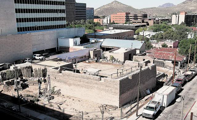 The northeast bastion of the reconstructed Presidio San Agustin del Tucson. This fort was the first European structure in urban Tucson, constructed by the Spanish to mark the northern frontier of the Spanish empire in the Americas. The fortress was built in 1775 by the Spanish and used until the end of the Apache Wars by American settlers, circa 1886.